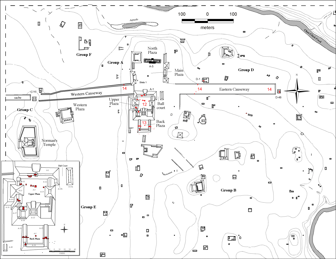 This is the map for the Archaeological Site, Chan Chich